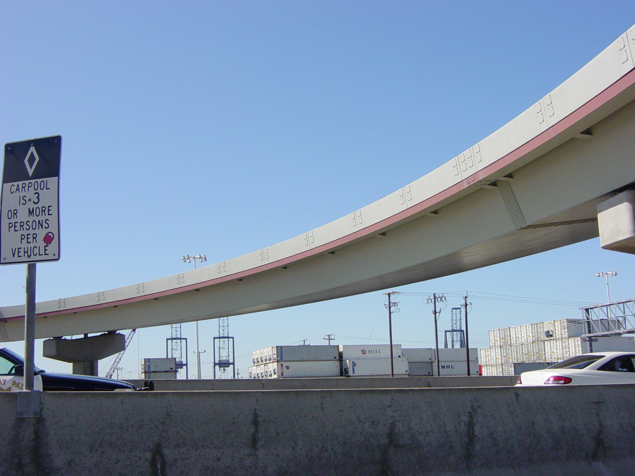 Box girder segment of a freeway flyover. Prefabricated from steel plate and placed upon its pylons overnight by large cranes. Concrete deck added after emplacement. At the eastern approach to the San Francisco-Oakland Bay Bridge.